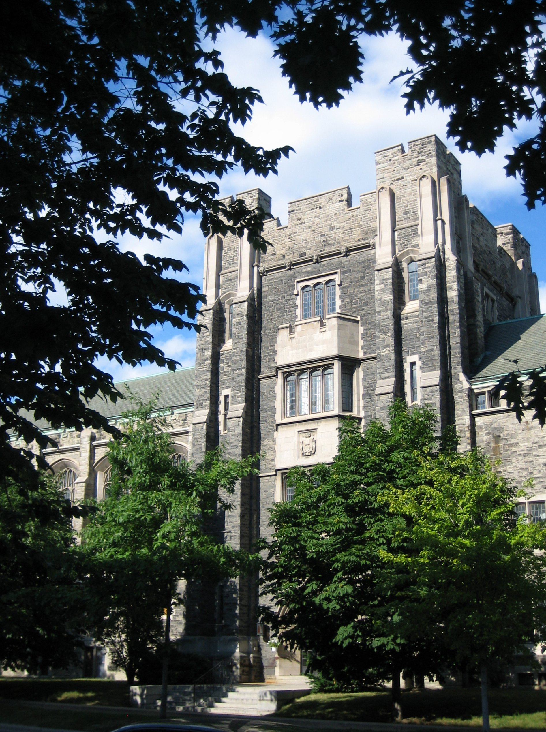 Knox College, University of Toronto - 59 St. George Street